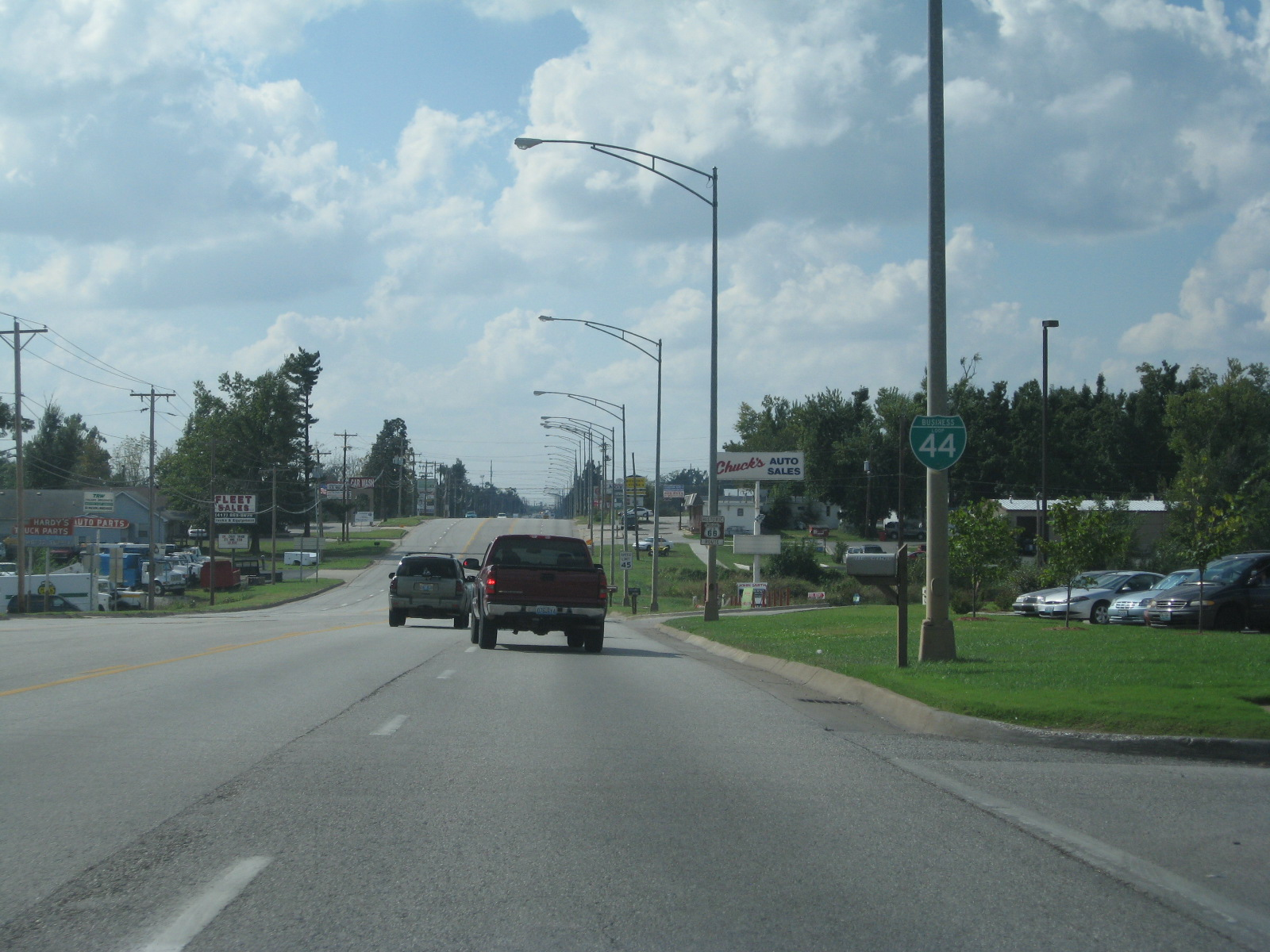 Chestnut Expressway (BUS I-44) in Springfield, Missouri. This section of Chestnut was also once part of U.S. 66.